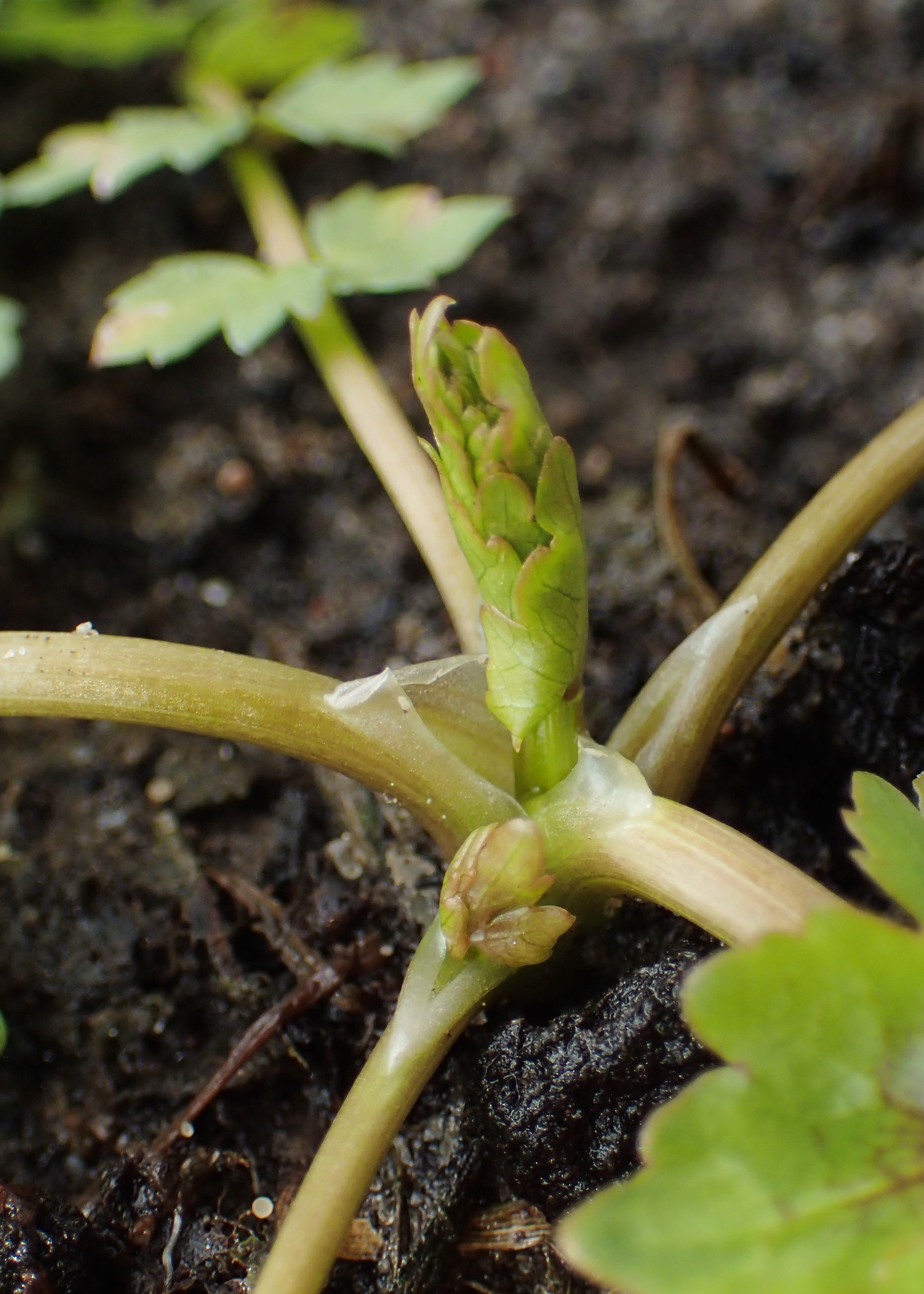 Helosciadium repens, Wierzbno, NW Poland